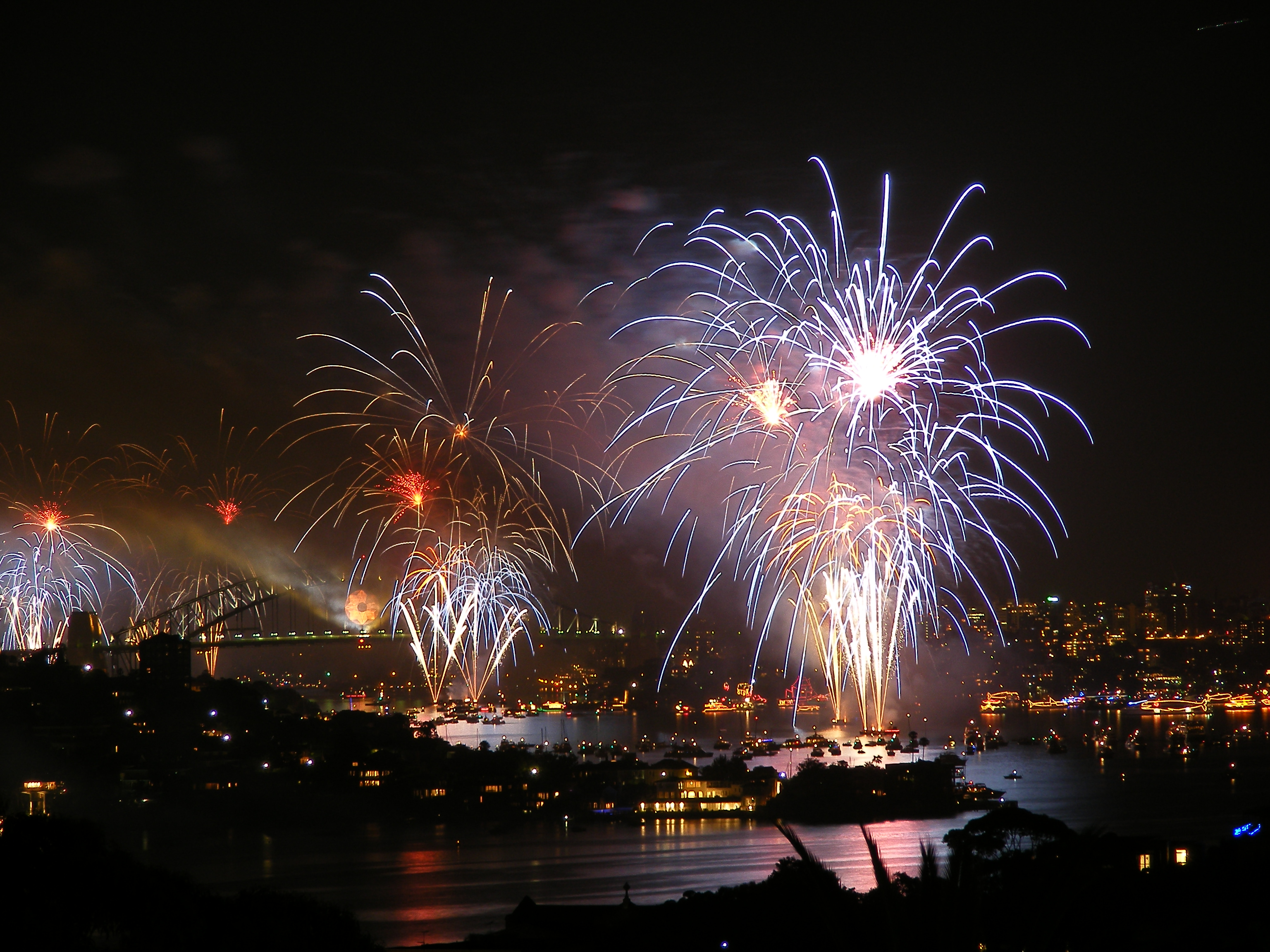 Fire works on Sydney Harbour 2008-9